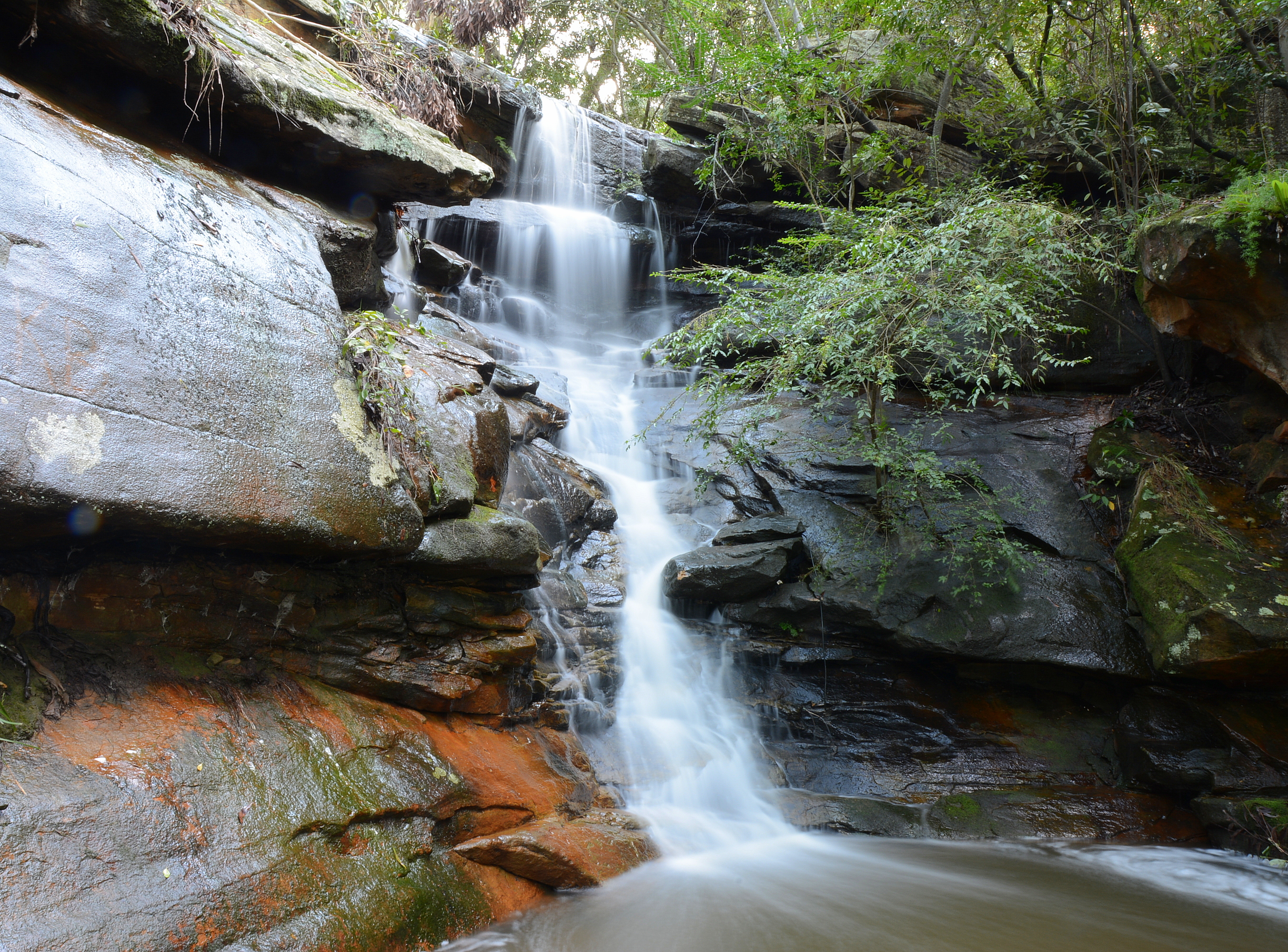 Tipperary Falls, Boronia Park, Hunters Hill, Sydney (flowing strongly after severe storms 20-22 April 2015; they usually don't flow at all)